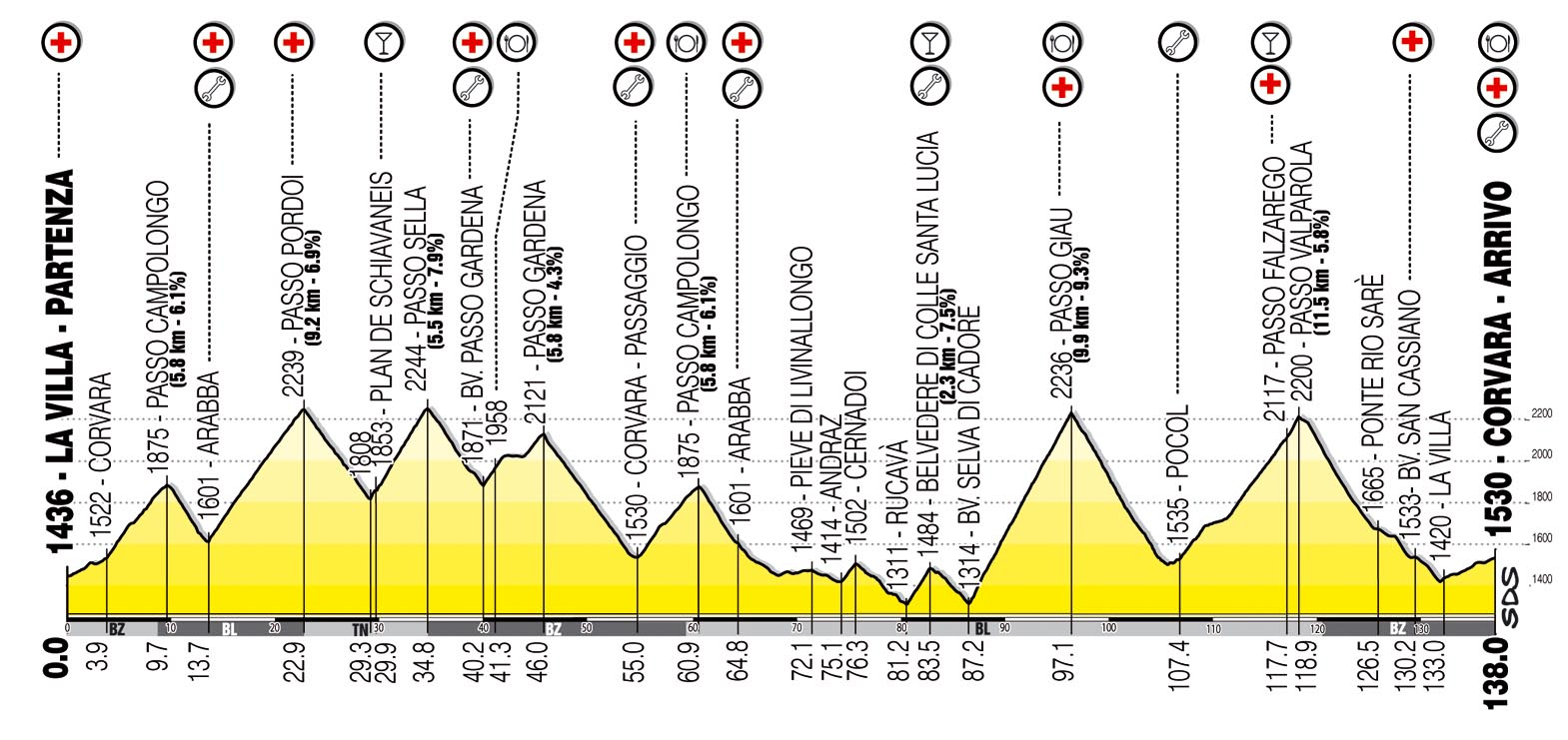 Profile/ Altidtudes of the longest course, the Maratona